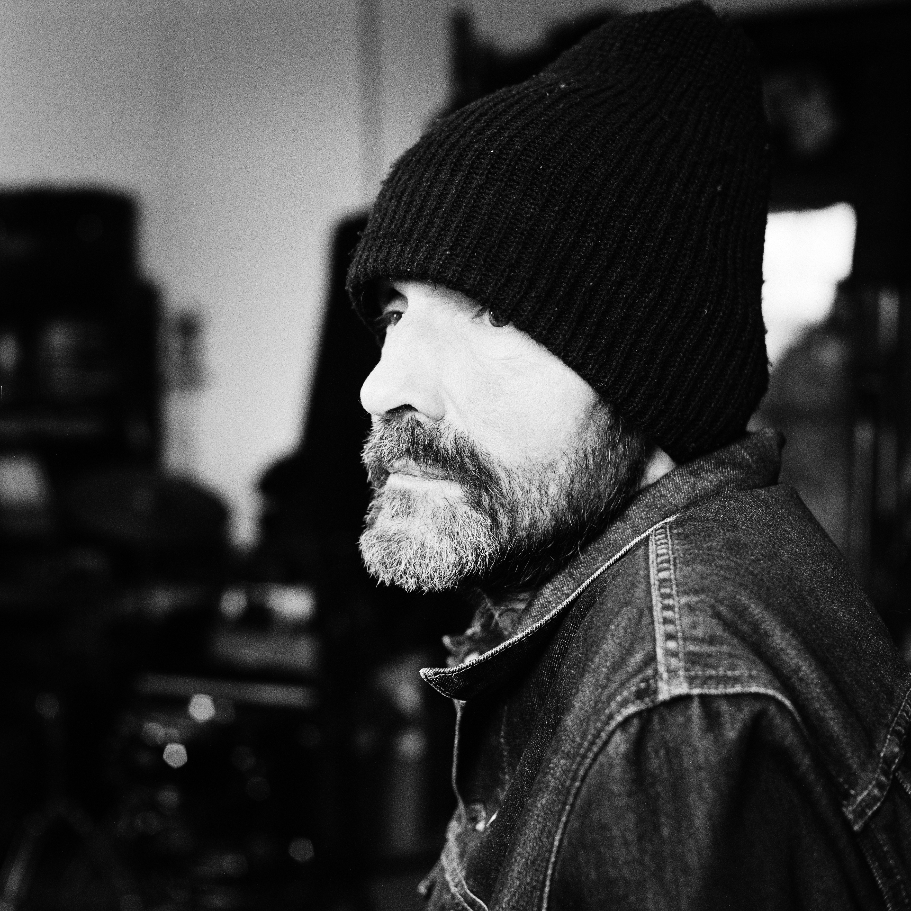 Stefan Krachten, Köln im Juni 2014 - photography by Joerg Steinmetz